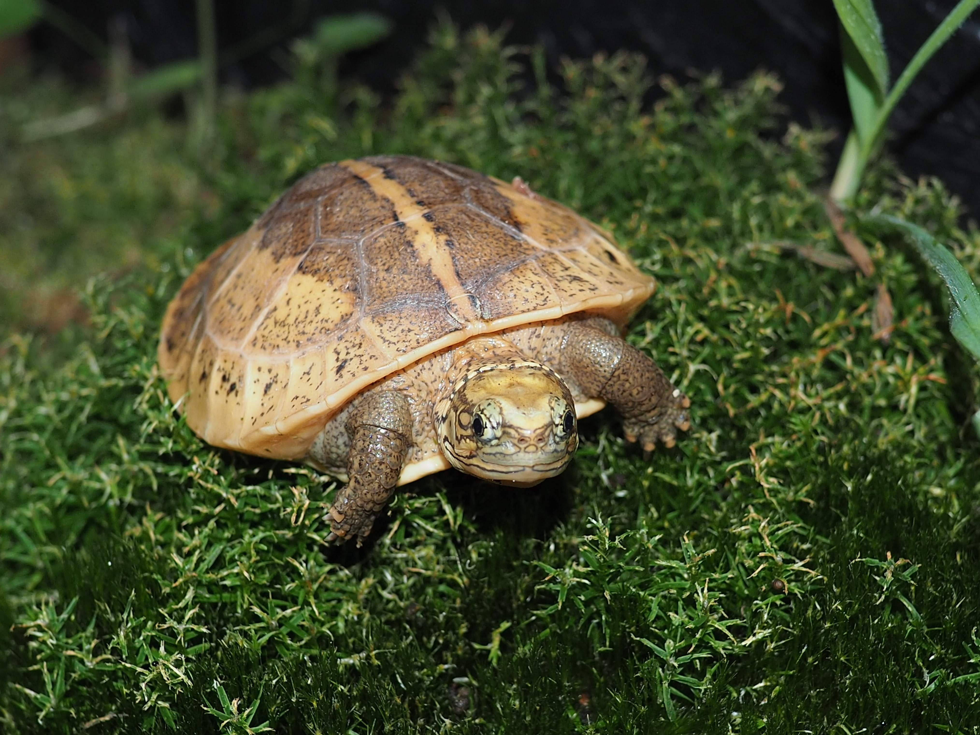 Cuora picturata hatchling